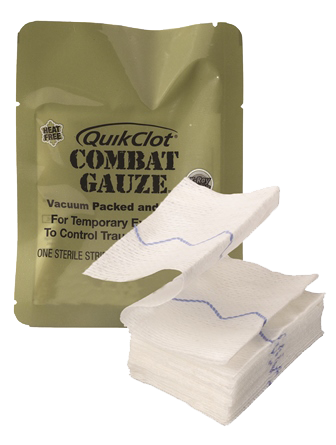 An example of a military version of QuikClot Combat Gauze.